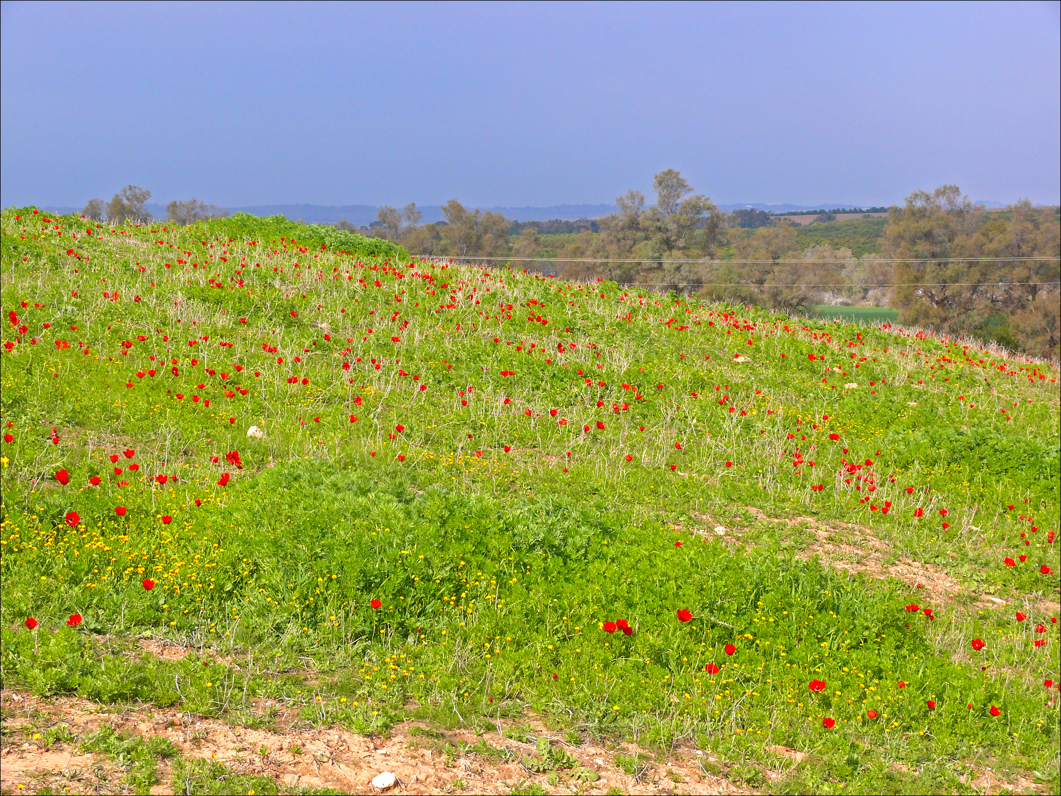 Sharon's Anemones Hill, near Havat HaShikmin farm, Israel. Here Ariel Sharon and his wife Lily are buried. The hill is reknowned for its red Anemone coronaria flowers.